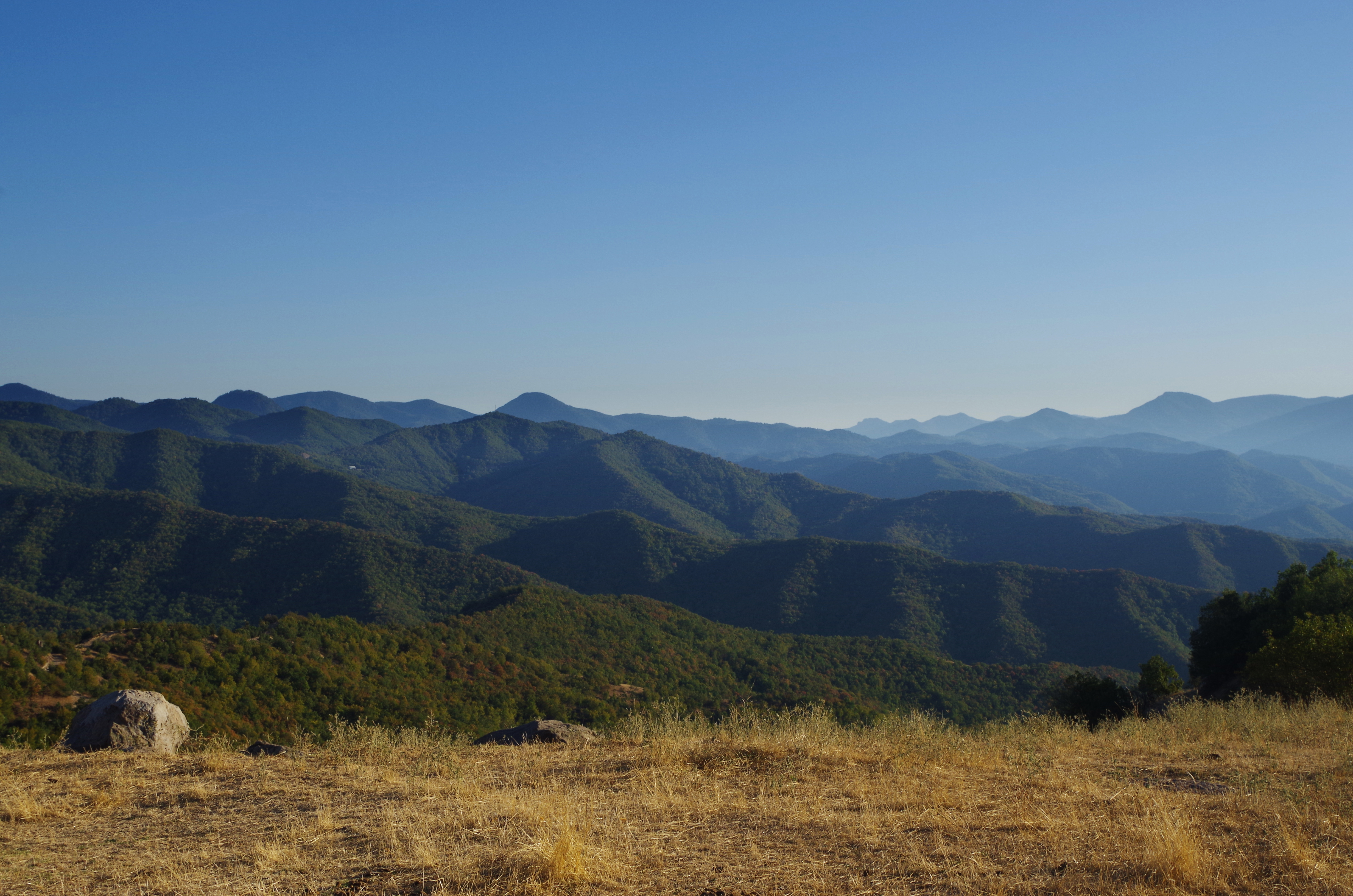 View of the mountain Kozjak in the southern part of Macedonia